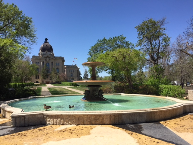 Trafalgar Fountain, Wascana Park, Regina, Saskatchewan